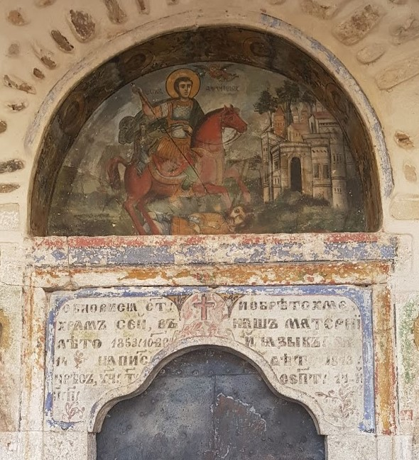 Old Slavic inscription from the church of St. Demetrius, Diavata, Thessaloniki (1853)